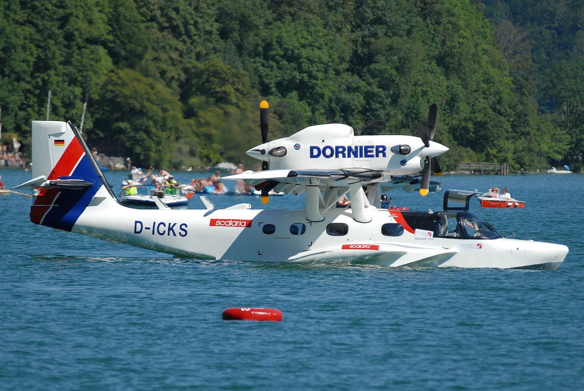 A Dornier Seastar amphibious aircraft on the Wolfgangsee in Austria